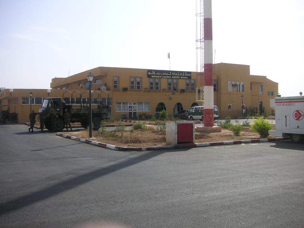 View of Biskra Airport (Algeria)